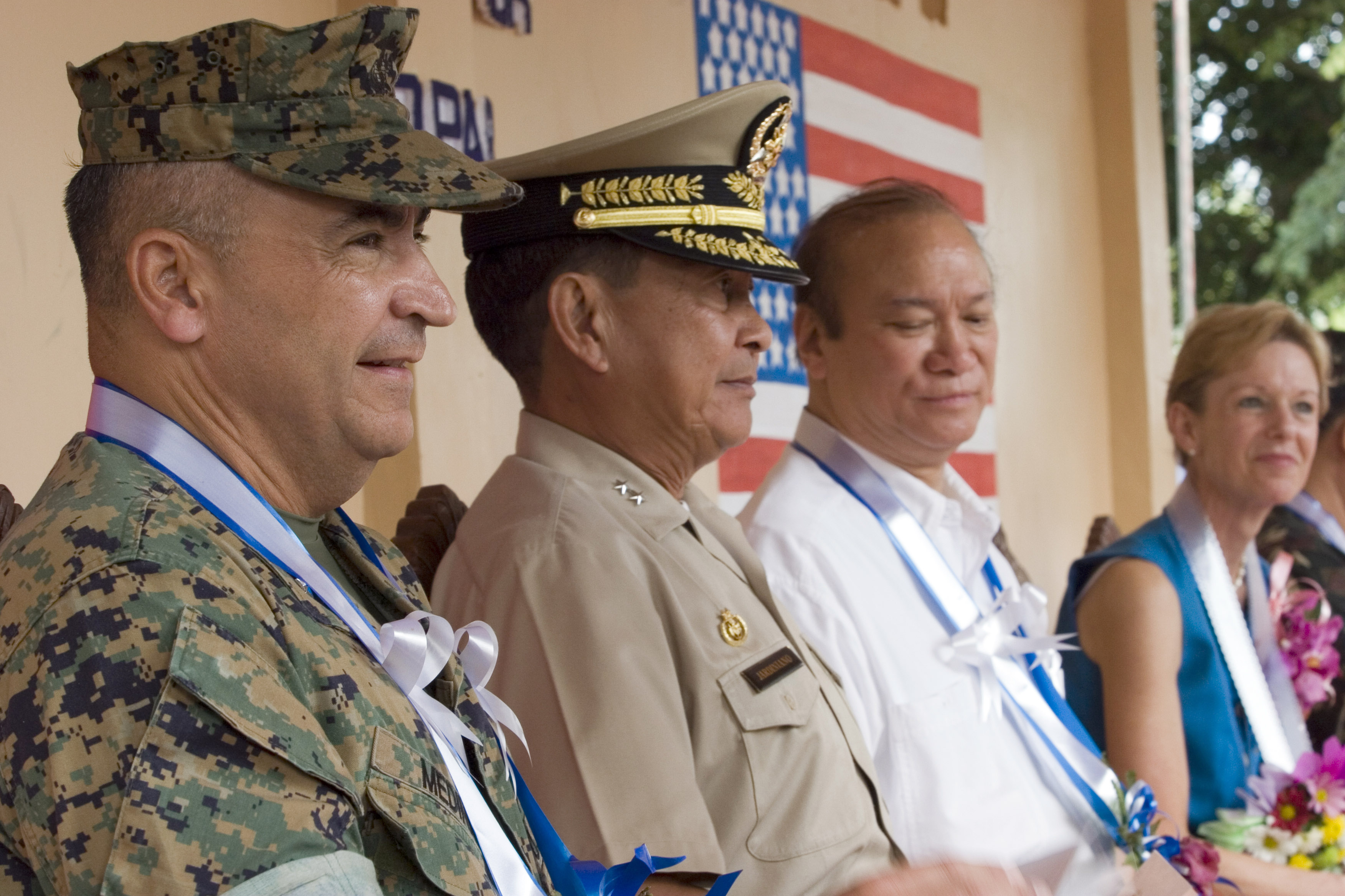 Subic Bay, Philippines (Oct. 27, 2006) – (Left to Right) U.S. Marine Brig.Gen. Joseph Medina, commanding general of the 3rd Marine Expeditionary Brigade; Philippine Rear Adm. Constancio Jardinonano, commander of the Naval Education and Training Command; Philippine Senator Ramon B. Magsaysay; and U.S. Ambassador to the Philippines, Kristie A. Kenney, attend a ceremony marking the completion of an engineering civil action project conducted by U.S. and Philippine Armed Forces. U.S. Marines, assigned to Marine Wing Support Group One Seven (MWSG-17), worked with the Philippine navy and local skilled laborers to build a multi-purpose building in the Barangay of San Juan, San Antonio, Zambales. The Marines are currently in the Philippines participating in bilateral training exercises, Exercise Talon Vision and Amphibious Landing Exercise (PHIBLEX). The annual exercises are designed to enhance interoperability and professional relations between the U.S. and Philippine Armed Forces. U.S. Marine Corps photo by Staff Sgt. Ricardo Morales (RELEASED)